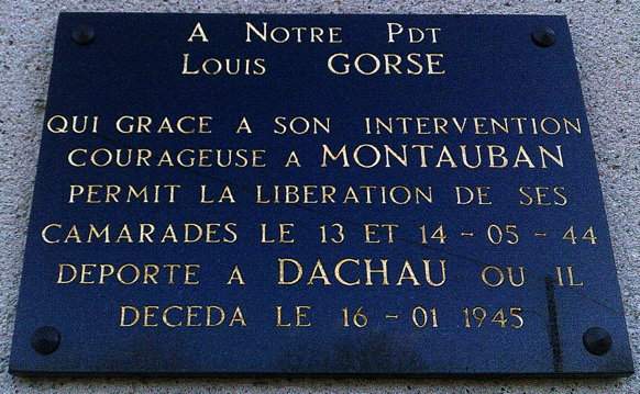 Memorial plaque on the sawmill Grèzes, Lot, France.